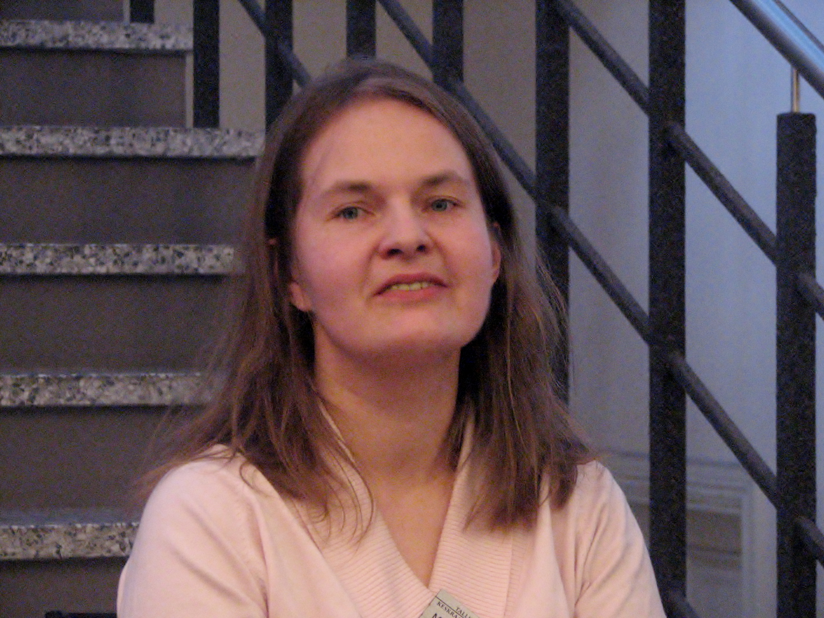 Estonian poet Marje Ingel performing in Central Library of Tallinn during World Poetry Day